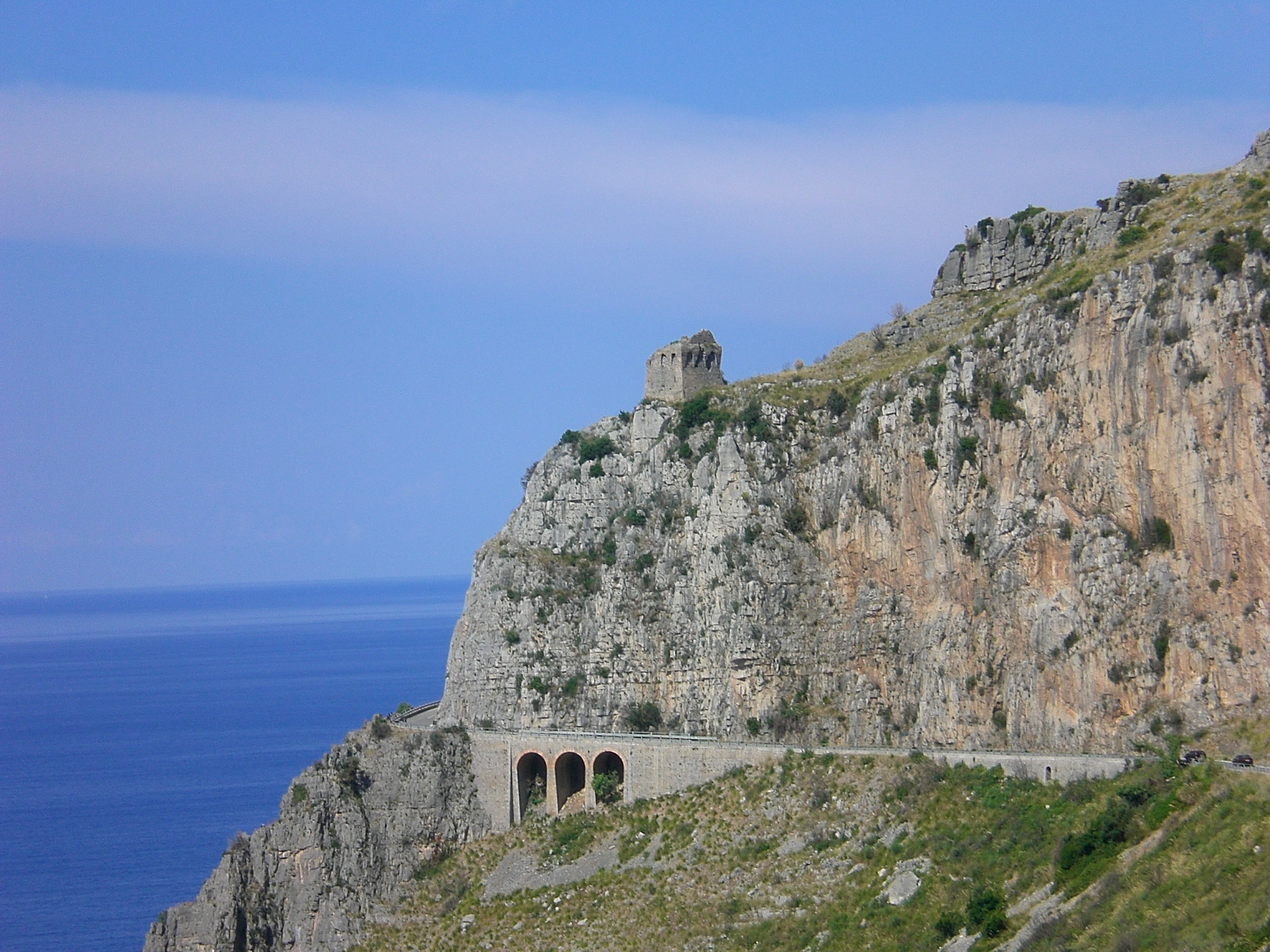 Tower of the Crivi near Maratea